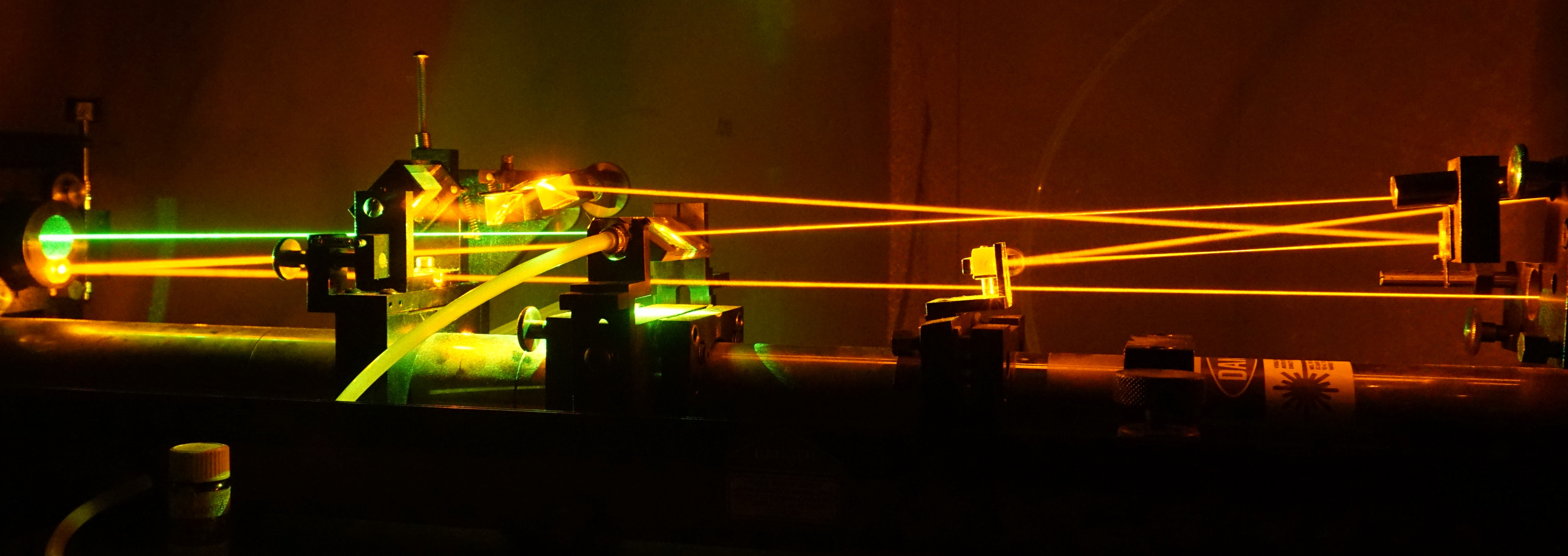 The internal cavity of a Coherent Inc. model 740 dye laser is exposed during alignment of the optics. The frequency-doubled Nd:YAG laser enters the dye cell from the left, to "pump" the dye into a fluorescent state, where it will be ready to emit stimulated radiation. The fluorescence from the dye is reflected between the end mirrors, which consists of a diffraction grating (upper left of center) on one end of the beam and a cavity dumper, in the form of an acousto-optic modulator (beyond the right edge), on the other end, which is used as the output coupler. The beam goes through several stages of expansion, folding and contraction using a variety of curved mirrors, flat mirrors and prisms, adjusting it to the optimum size for each stage of the cavity. The cavity length is 1.97 meters, although the mirrors allow for it to be mounted in a shorter case. The dye cell is placed closer to one end of the cavity, because two waves are emitted from the cell in opposite directions. In this way, the wave on the shorter end of the cavity returns to the dye cell first, using most of its energy, and the other wave is eventually extinguished. This allows full gain from only one wave and a very short pulse of light can be extracted. The laser is capable of continuous wave operation or ultrafast picosecond pulses. The laser was photographed during a mirror-alignment procedure, allowing better imaging of the beam. The external laser used for alignment is 589 nm and is much brighter than the actual beam would be. The pump laser is shown for demonstration purposes, but at very low power (30 mw) in order to match the brightness of the 50 mw yellow beam. (In normal operation the pump laser would be much brighter than the intra-cavity beam, making it very difficult to photograph.